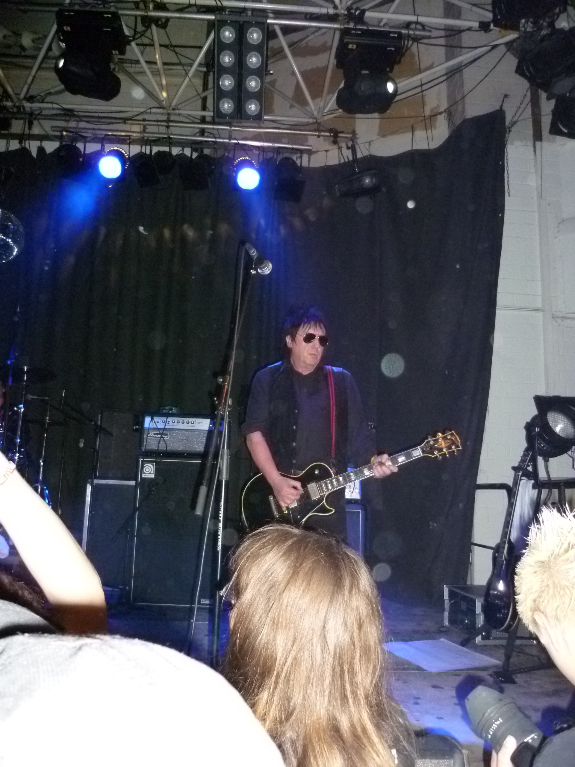 Honest John Plain with The Boys live in Düsseldorf (Zakk)